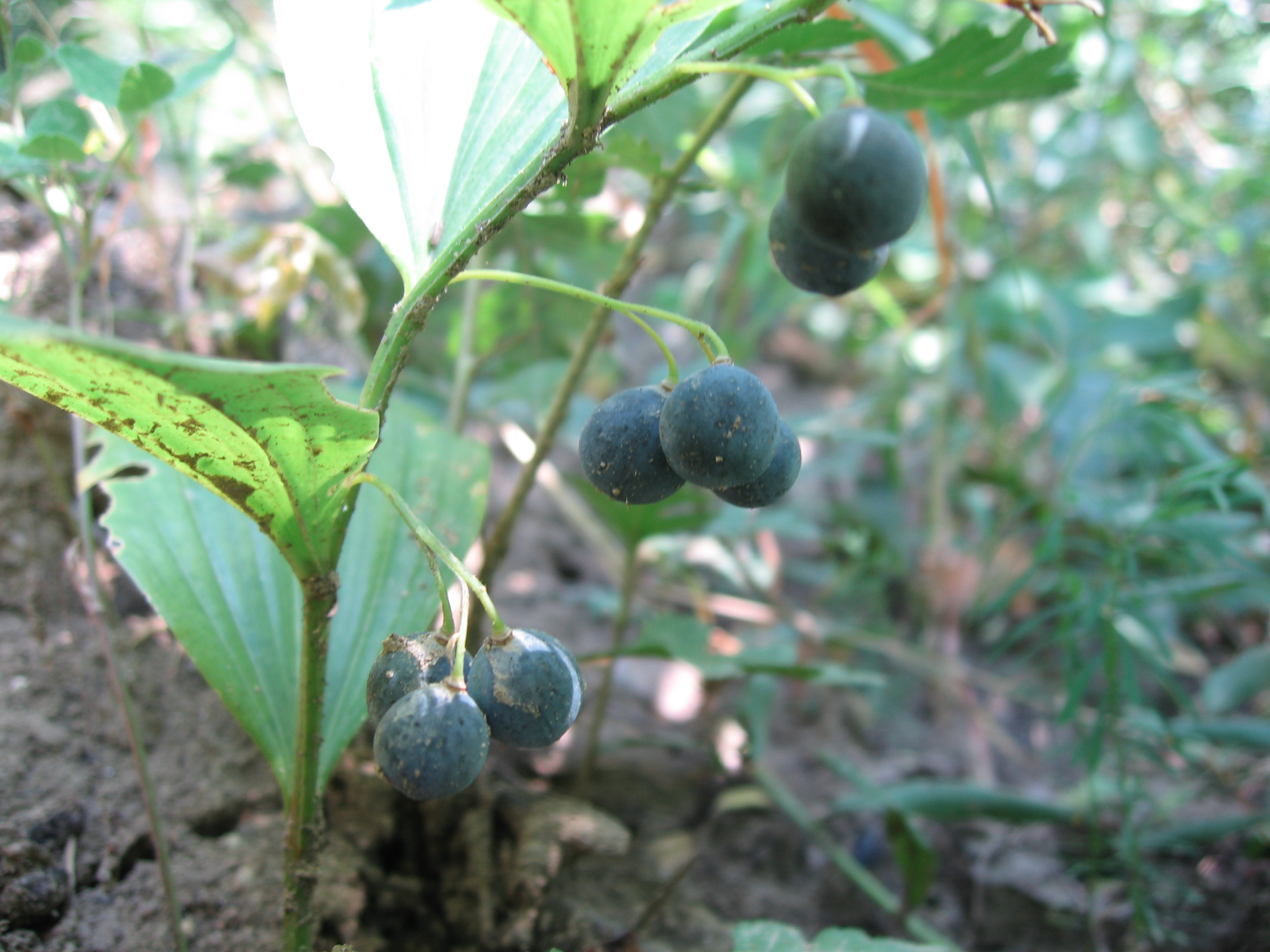 Polygonatum latifolium fruits